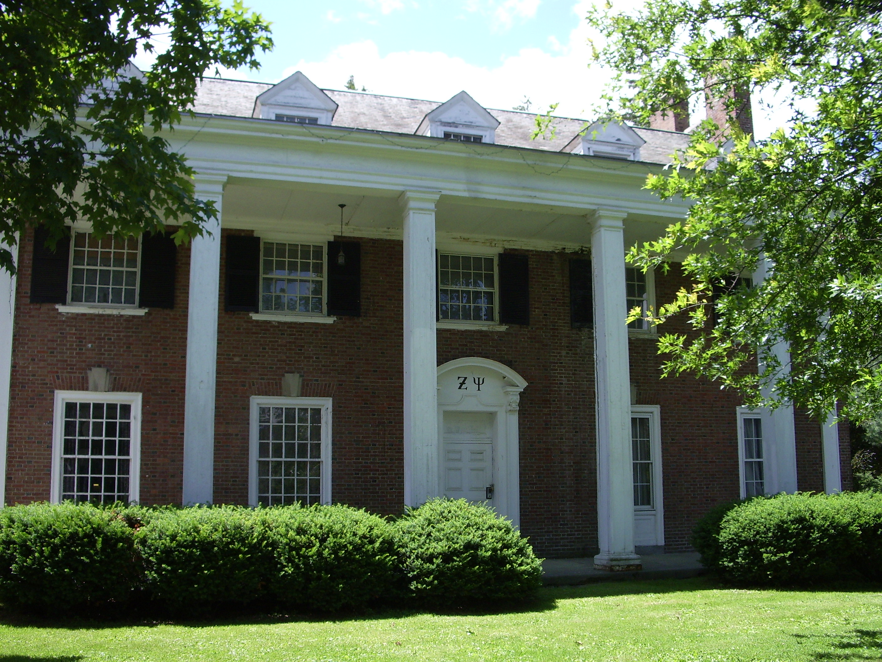 Photograph of Zeta Psi at the campus of Dartmouth College in Hanover, New Hampshire.